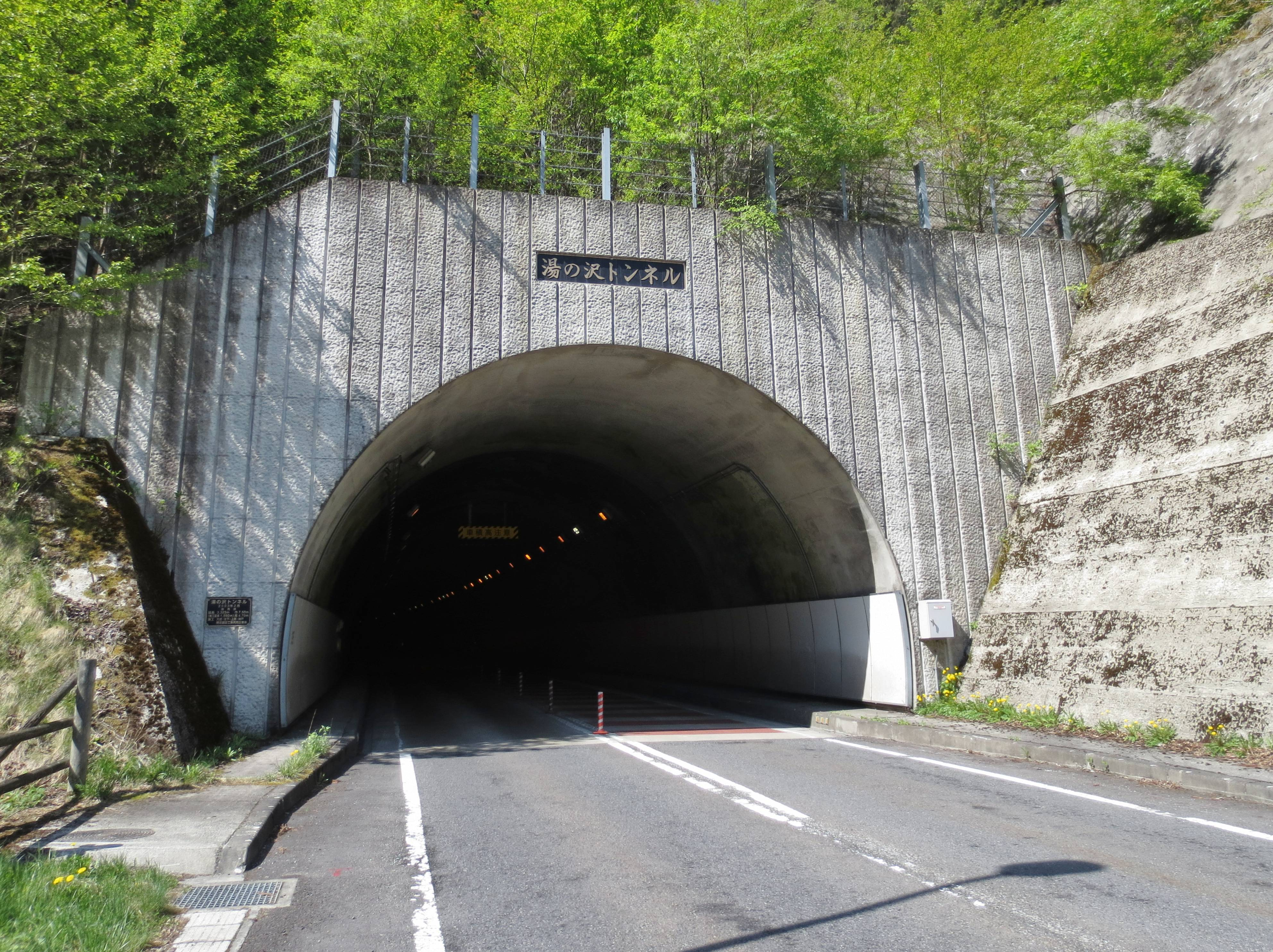 Yunosawa Tunnel.